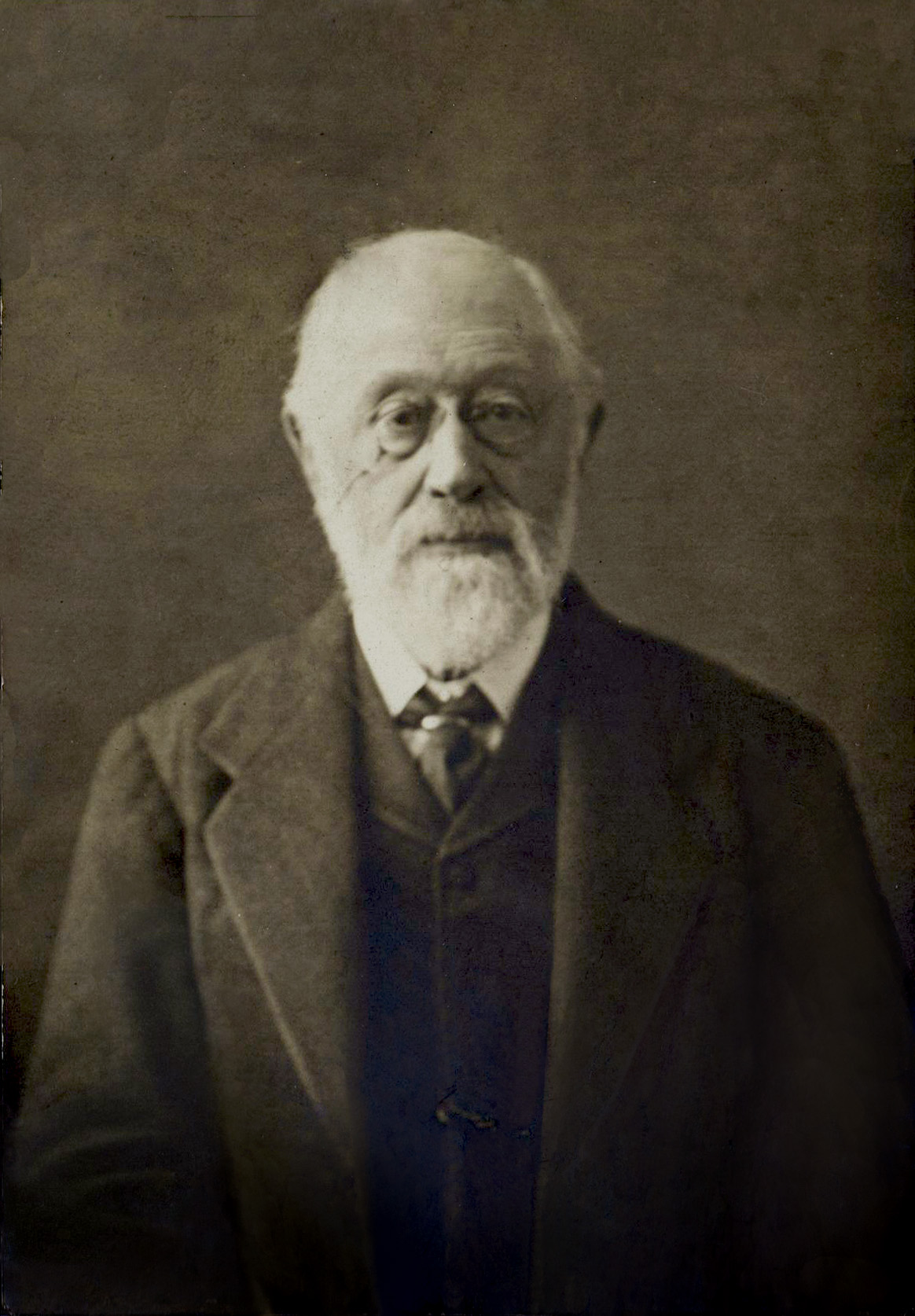 Picture of Philip Magnus